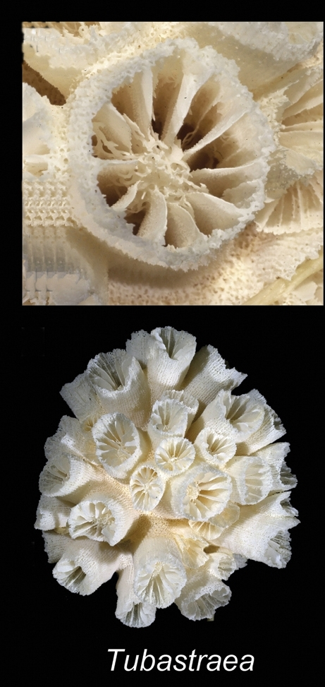 Cut-outs from original files: Recent_azooxanthellate_Scleractinia_(Cnidaria,_Anthozoa)_-_ZooKeys-227-001-g001 - 023